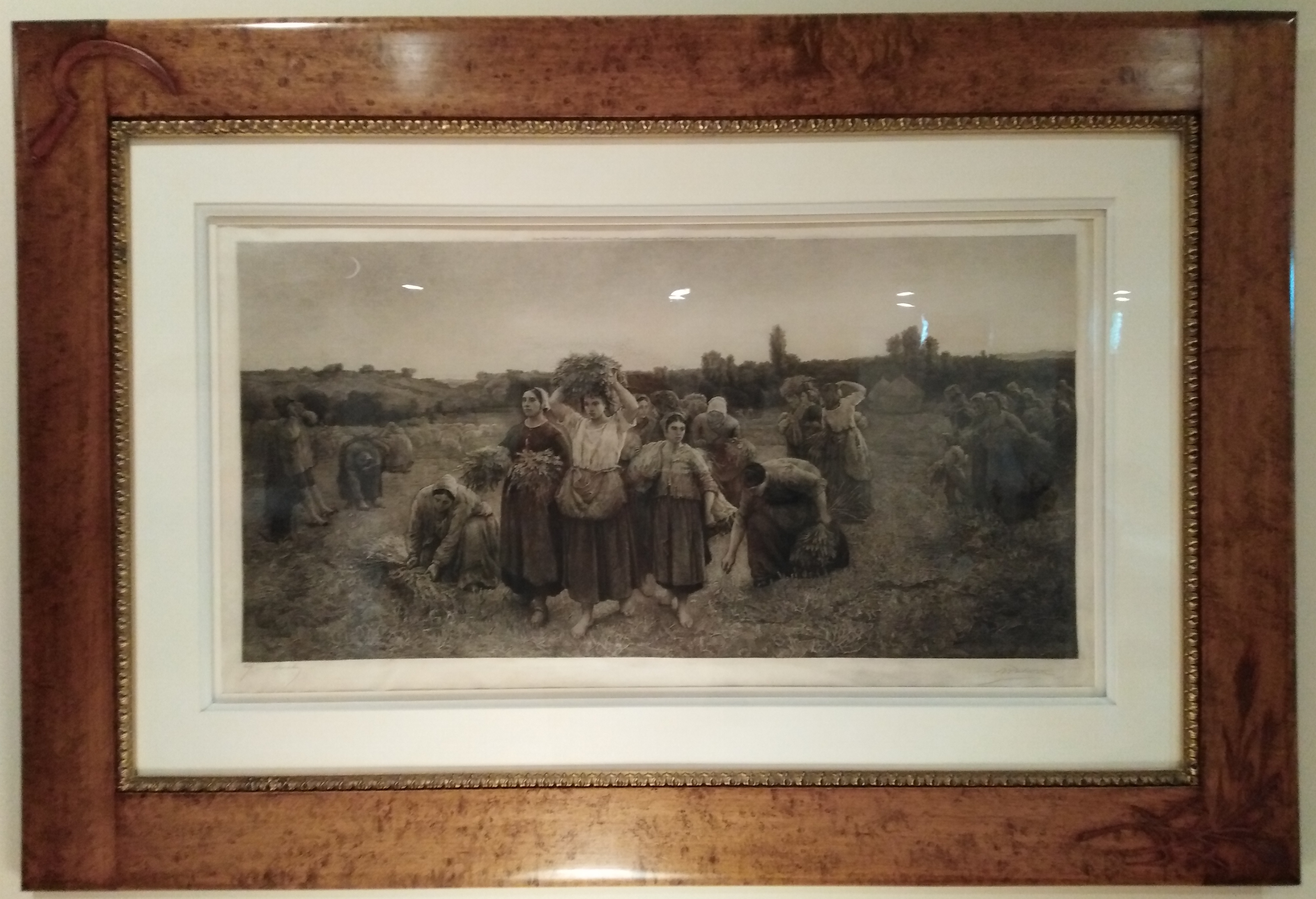 Framed print "London Published October 1st, 1887 by Arthur Tooth & Sons, 546 Haymarket by Messrs. Knoedler & Co. in the Office of the Librarian of Congress at Washington" Signed by Jule Breton in pencil, lower left, and the etcher at lower right. Frame size 85 x 126cm and print size 41 x 82cm. The original work in oil was 90 x 176cm Musee d'Orsay, Paris